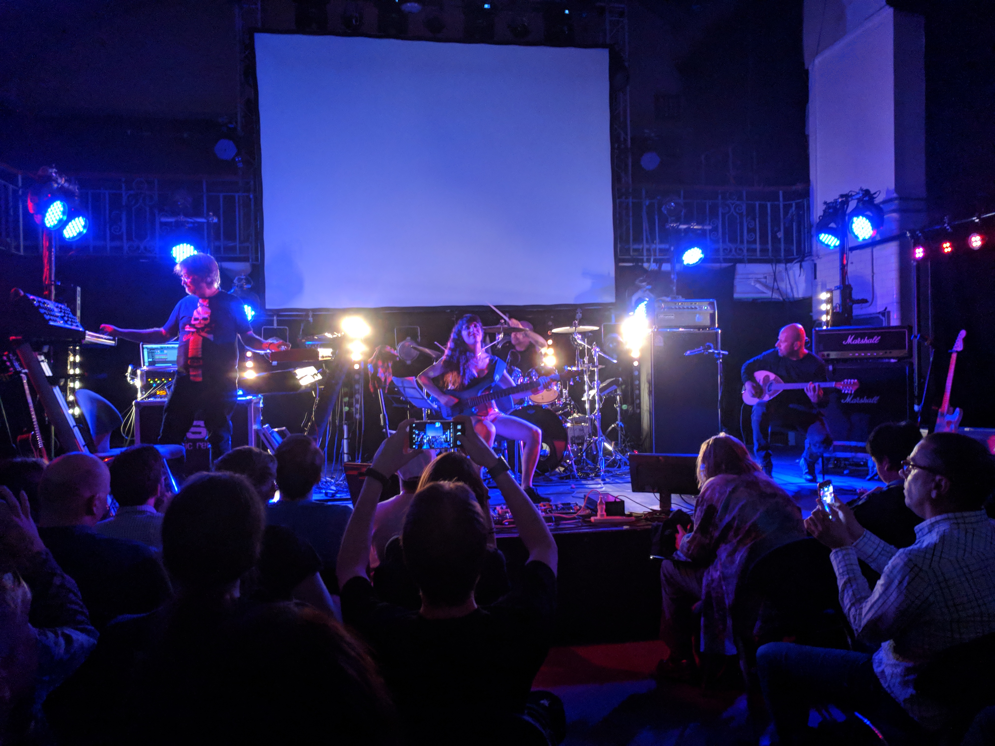 Goblin playing the soundtrack to Suspiria on August 6th at the 2018 Edinburgh Fringe Festival